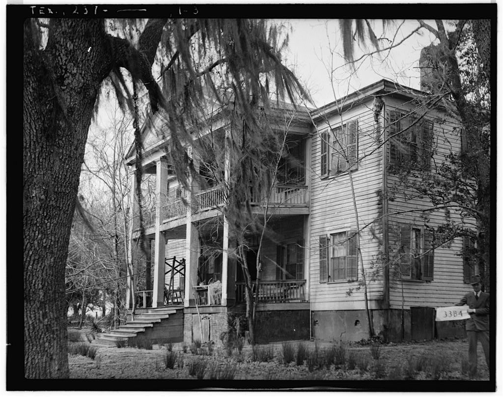 Liendo Plantation, Hempstead, Texas. Listed on the national Register of Historic Places. Historic American Buildings Survey—HABS image.